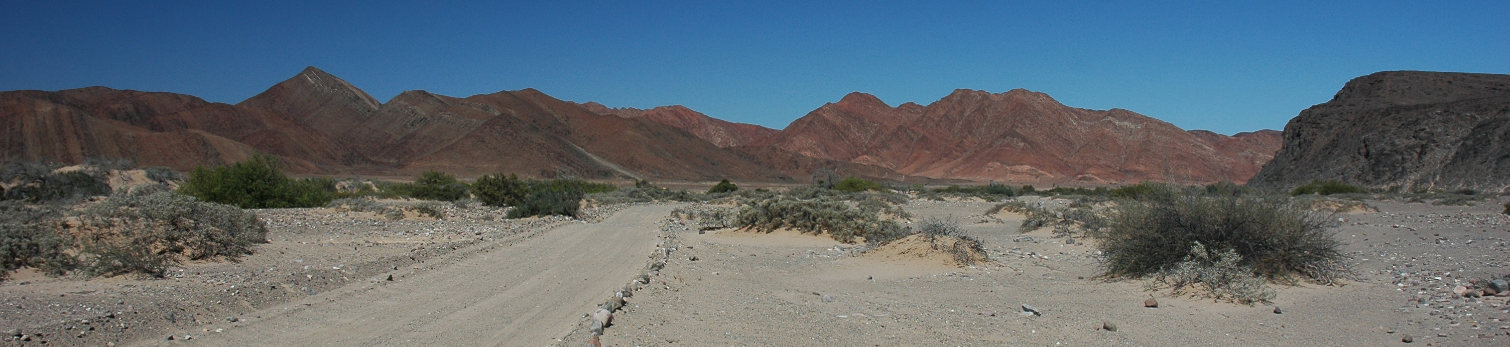 Kaokoland, Namibië Photographie prise par GIRAUD Patrick